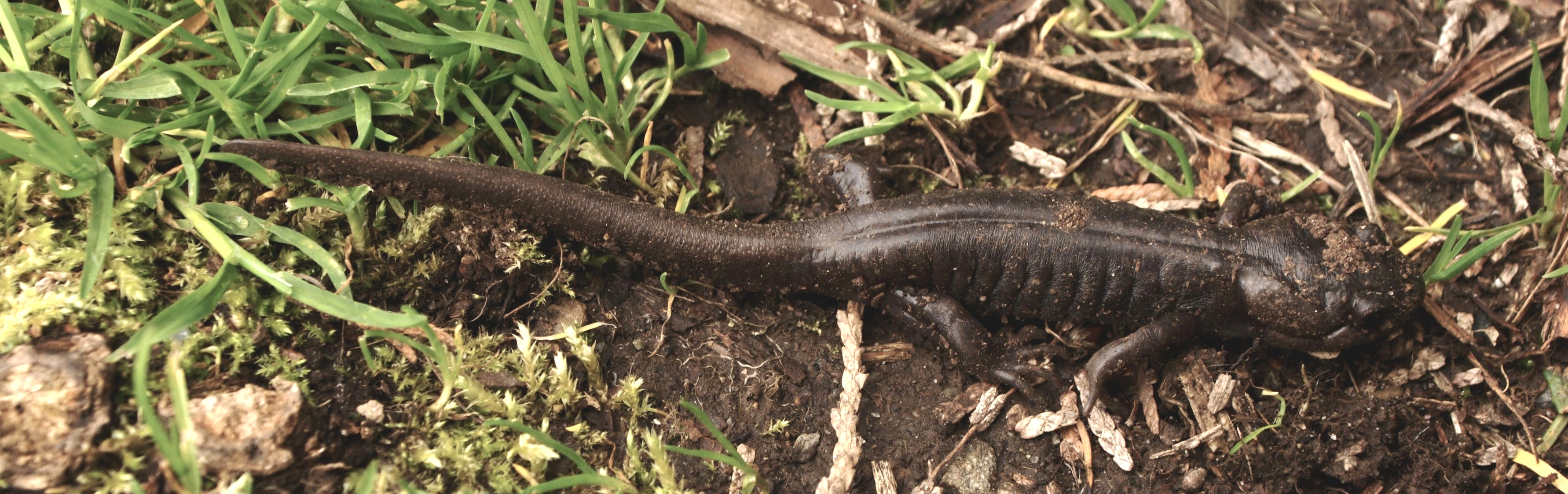 Northwestern Salamander (Ambystoma gracile).